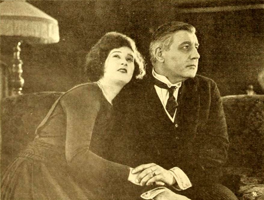 Still for the American drama film The Echo of Youth (1919) with Pearl Shepard and Charles Richman, on page 1382 of the March 8, 1919 Moving Picture World.